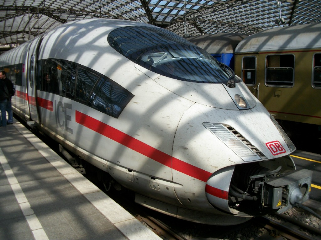 Scharfenberg coupler on an ICE at Cologne station